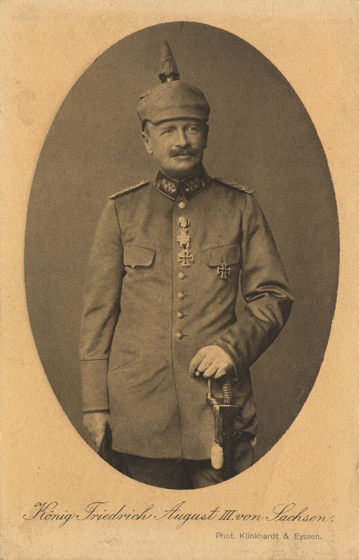 King Friedrich August III. of Saxony (photo canvas print)